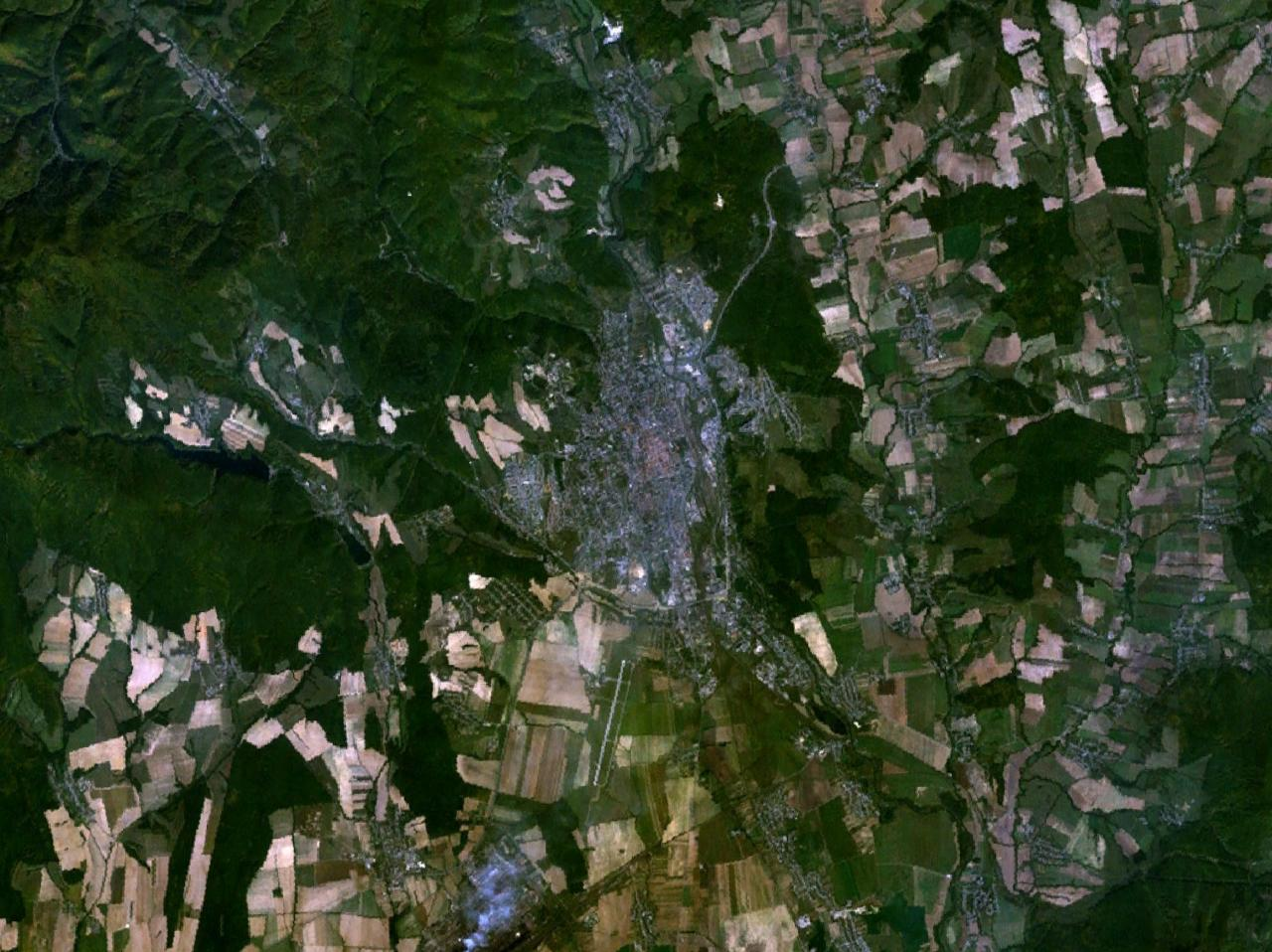 Sattelite view of Kosice, Slowakia